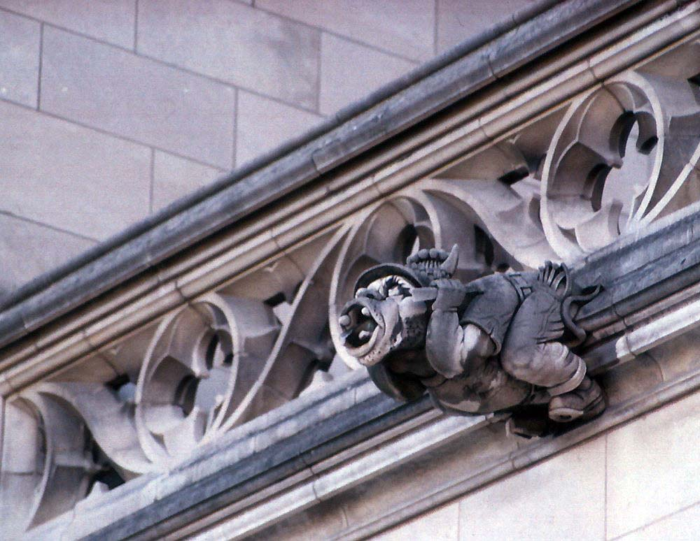 John Guarente's The Master Carver gargoyle (1960s) at the National Cathedral in Washington, D.C. portrays his boss, Roger Morigi, as a devil—horns poking through his hat, his right foot is a cloven hoof and he has a tail. He is also clutching the carvers tools that signify his trade.